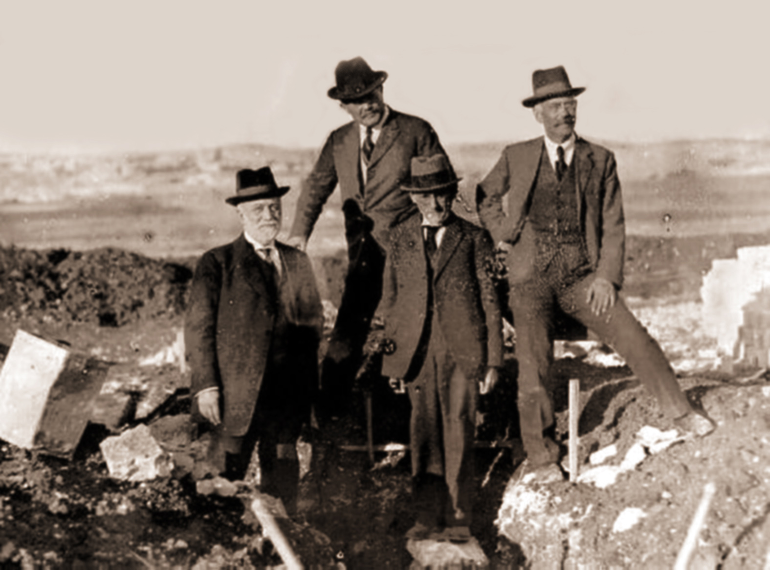 Portrait of Eliezer and Hemda Ben-Yehuda, their house in Talpiot neighbourhood.